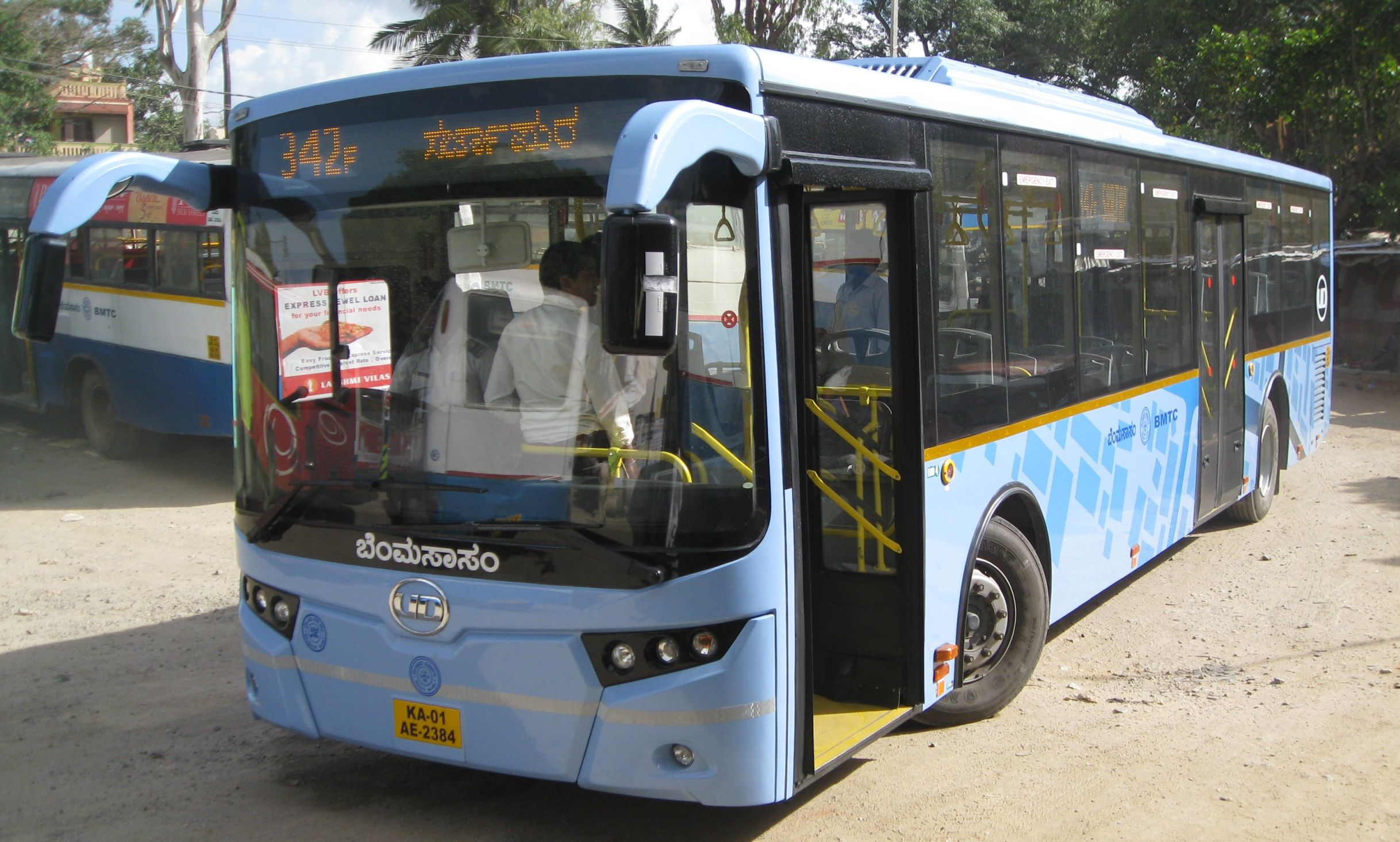 UD SLF ಕನ್ನಡ: ಯೂಡಿ ಎಸ್ಎಲ್ಎಫ್